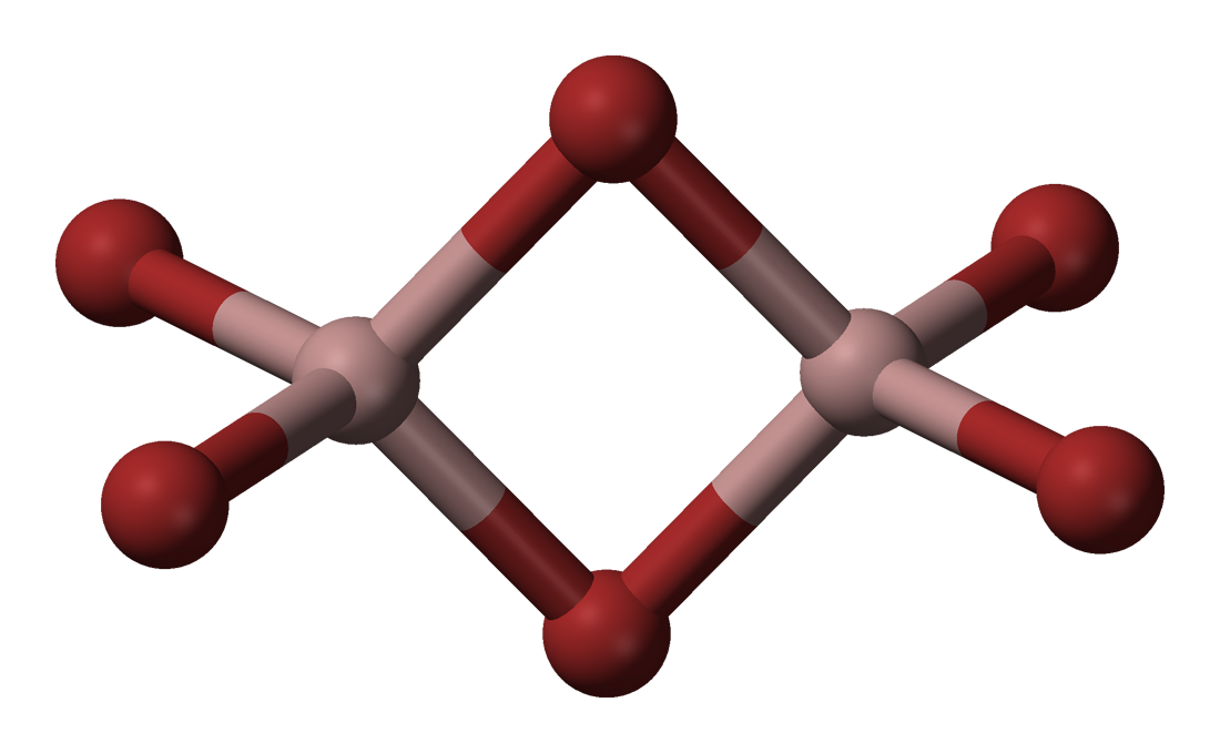 Gallium-bromide-3D-balls